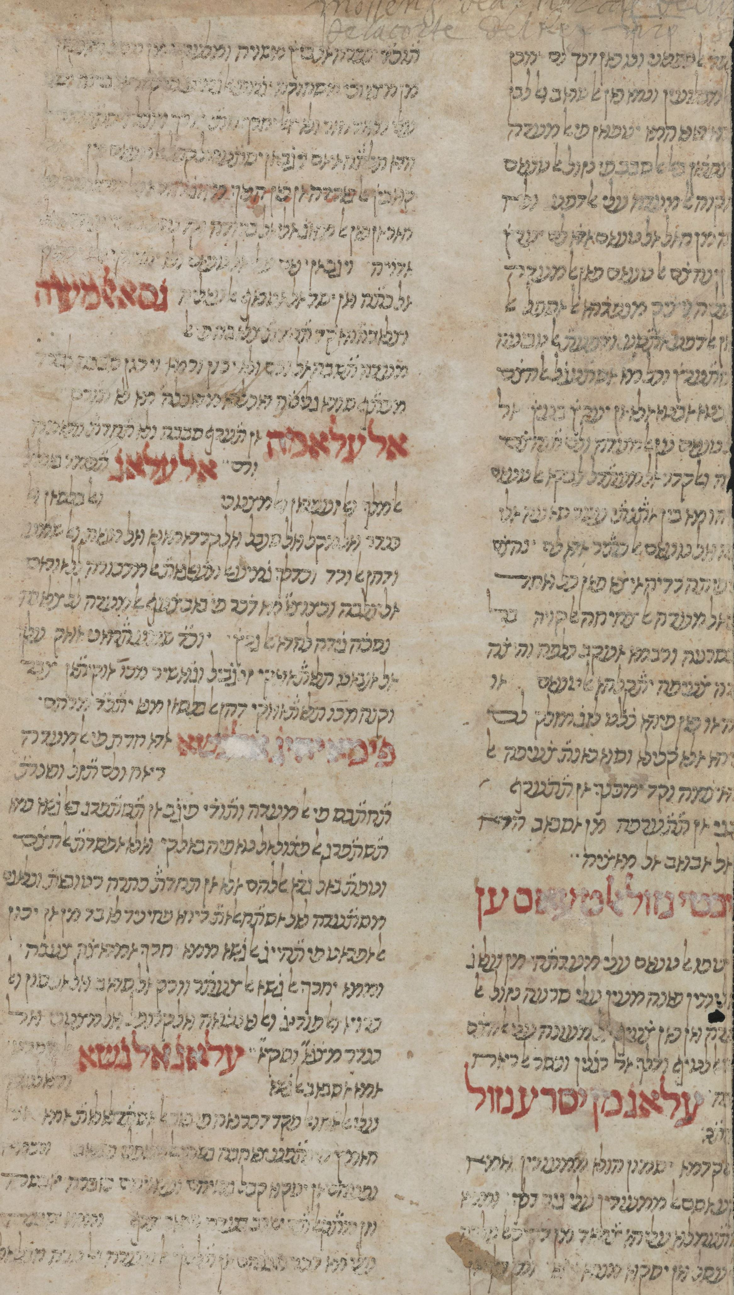 Leaf from the Hebrew translation by Judah ibn Tibbon of Jonah ibn Janah's work Kitab al-Tanqih, a 14th - 15th century copy